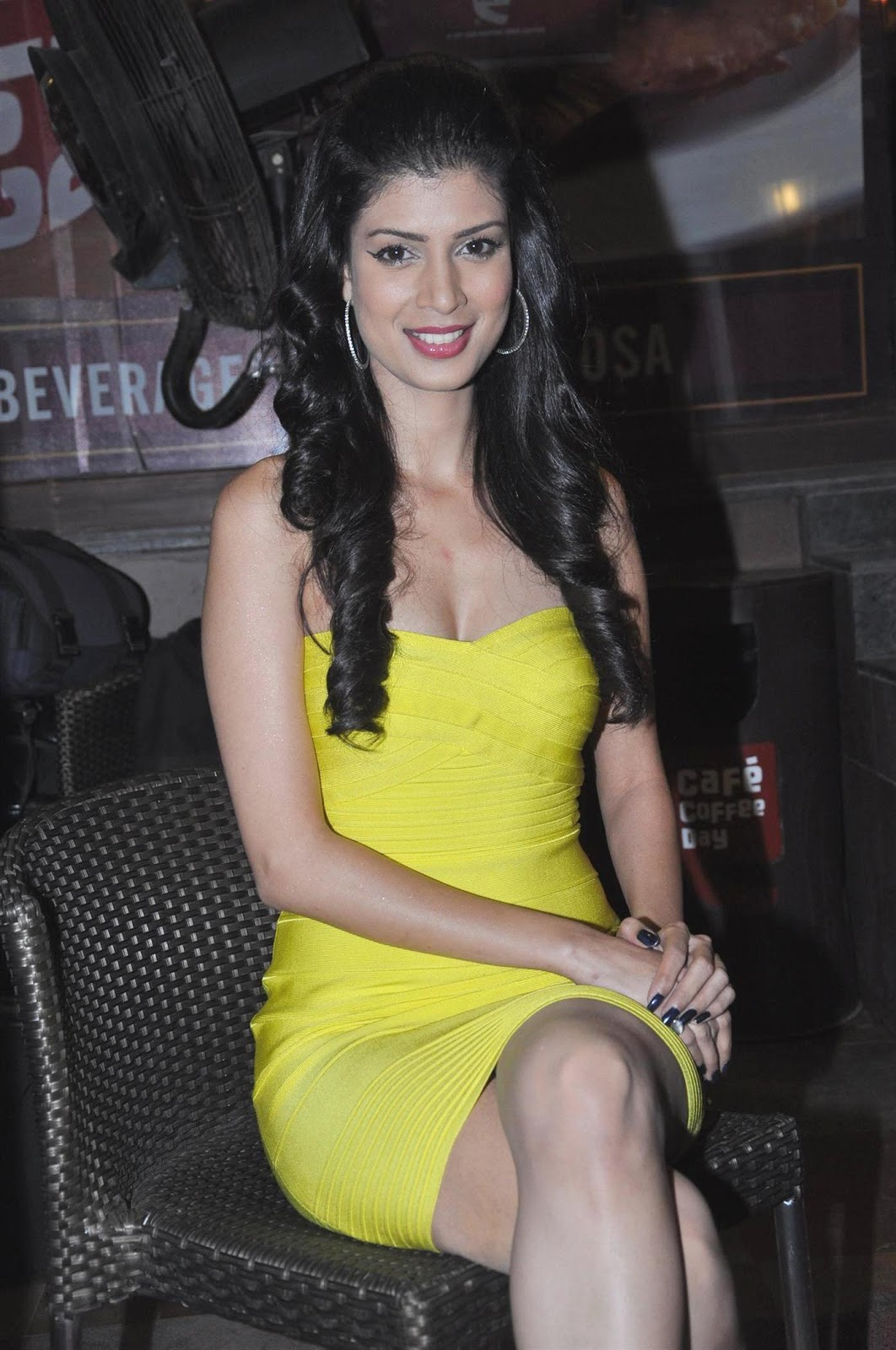 Tina Desai at the promotion of Table No. 21 in Mumbai. Dec 25, 2012.